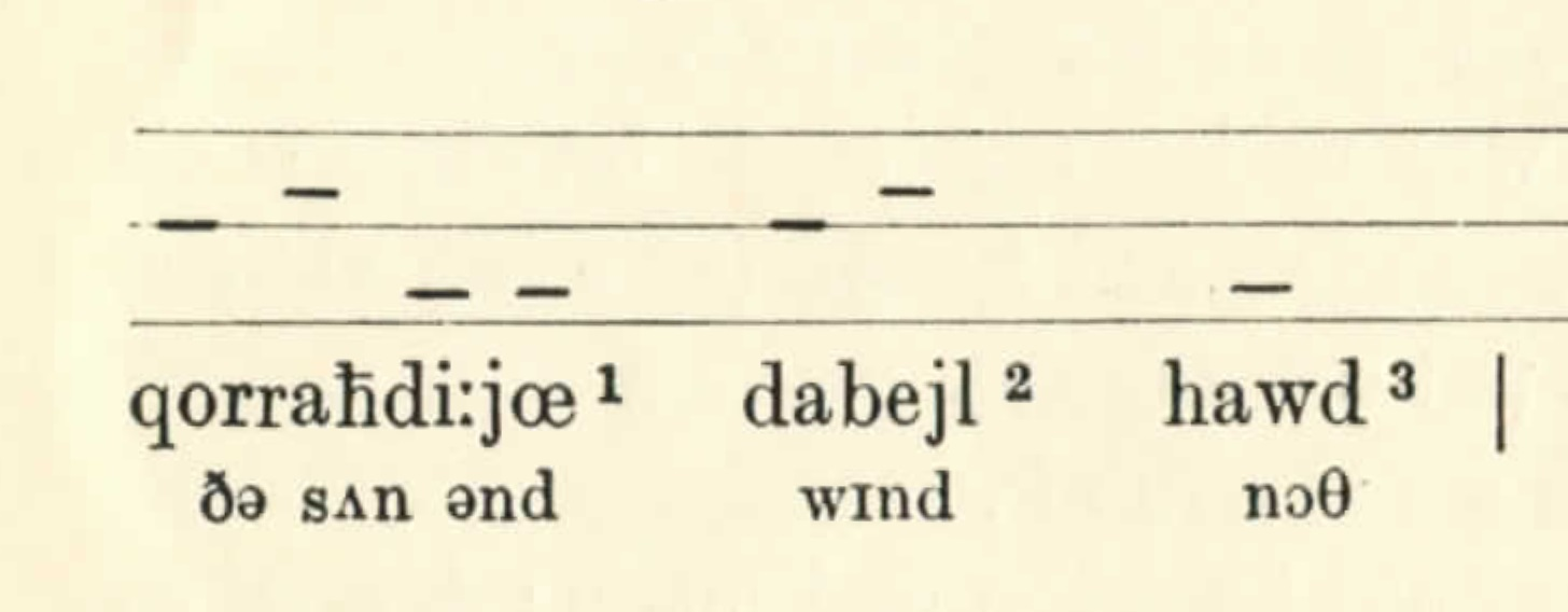 Lilias Armstrong's phonetic transcription of the first three words of a Somali translation of "The North Wind and The Sun".